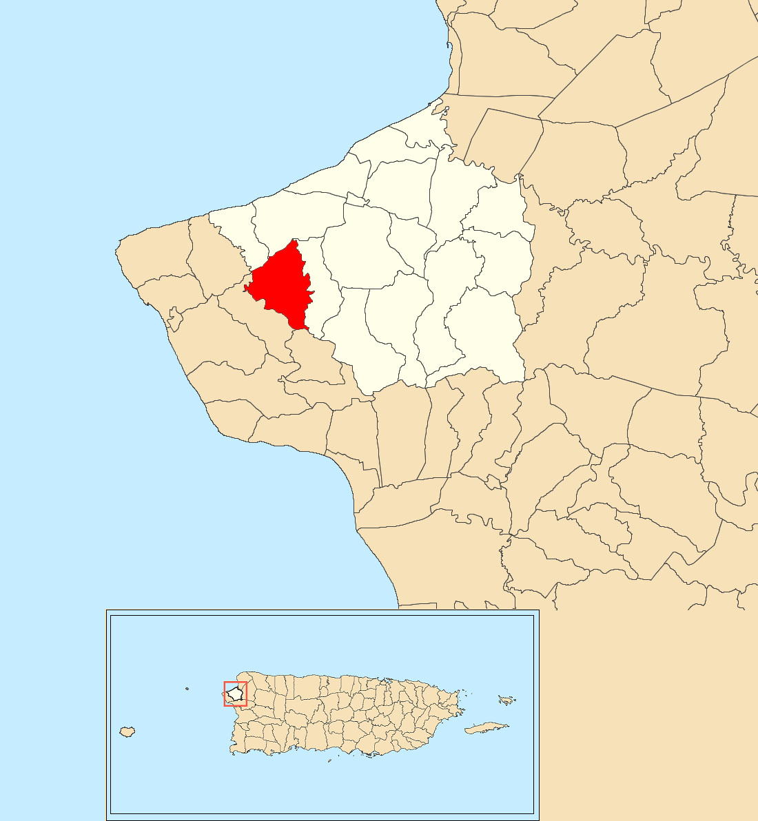 Cruces, Aguada, Puerto Rico locator map